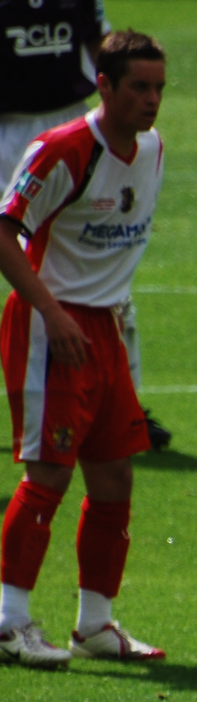 Gary Mills. Image cropped from original at flickr.